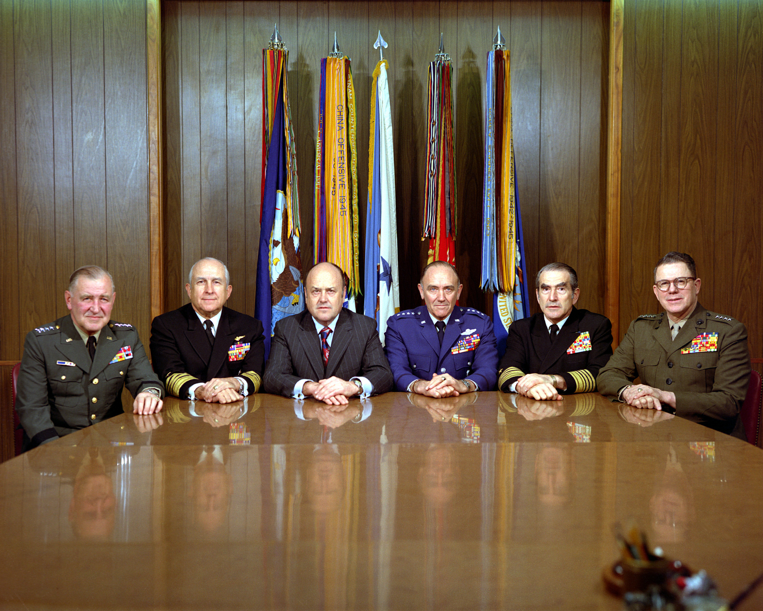 Secretary of Defense Melvin R. Laird meets with the Joint Chiefs of Staff in his Pentagon office. Attending the meeting are, from left to right: Gen. Creighton W. Abrams, chief of staff, U.S. Army; Adm. Thomas H. Moorer, chairman; Secretary Laird; Gen. John D. Ryan, chief of staff, U.S. Air Force; Adm. Elmo R. Zumwalt Jr., chief of naval operations; and Gen. Robert E. Cushman Jr., commandant, U.S. Marine Corps.